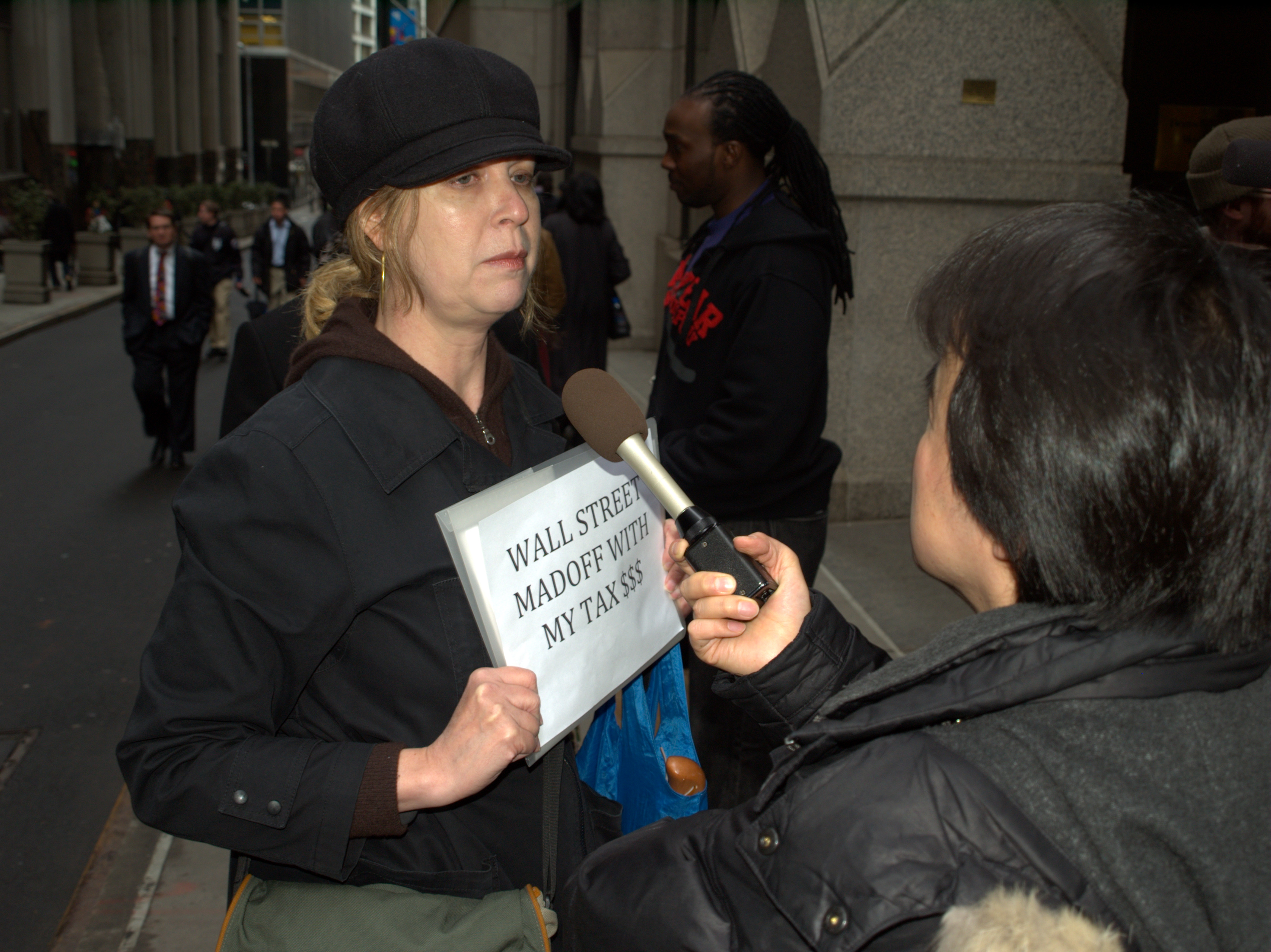 A protester outside AIG's headquarters at the American International Buildling in New York City is interviewed by a news crew. Photographer's blog post about this photo.